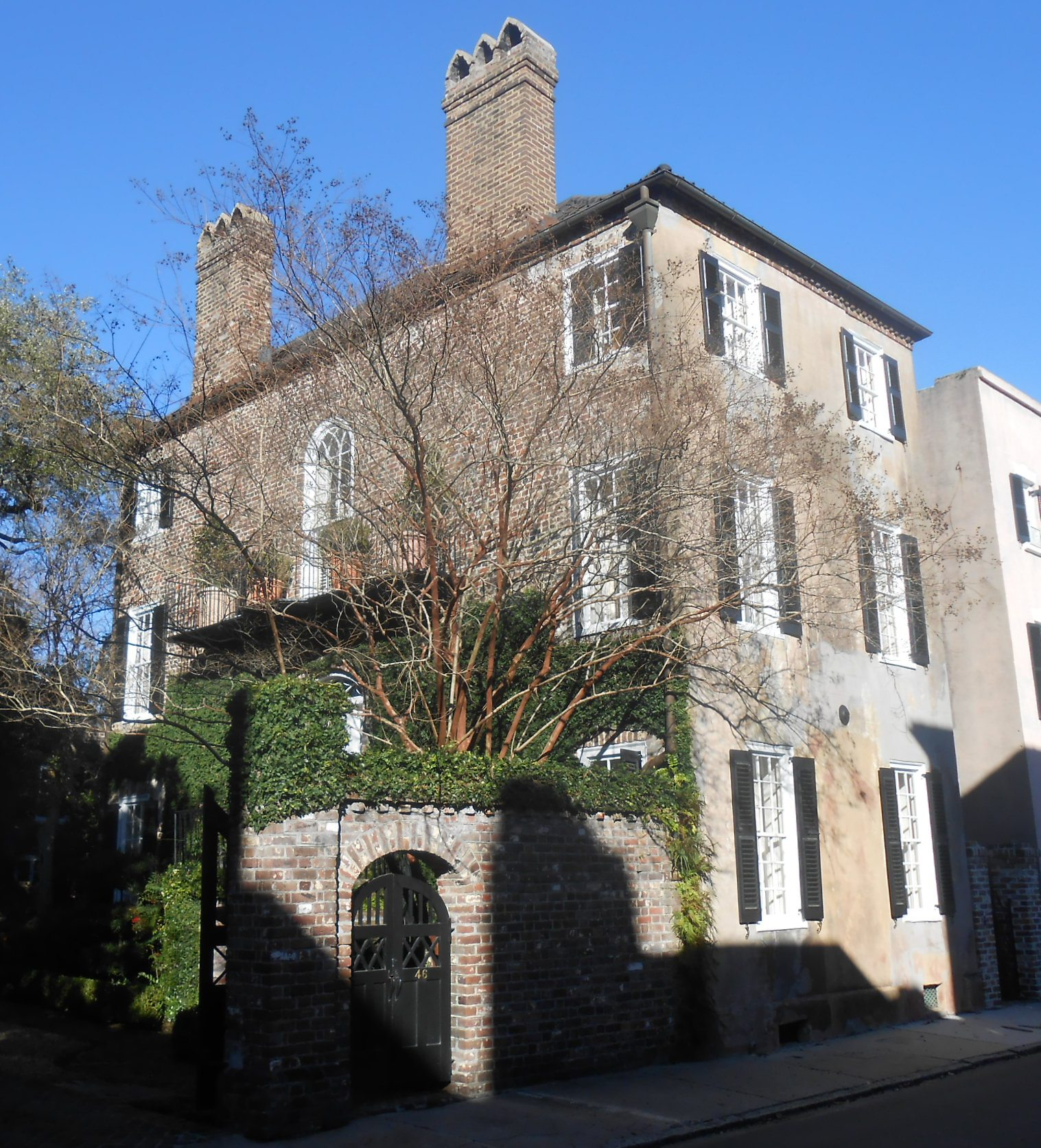 48 Tradd Street, Charleston, South Carolina